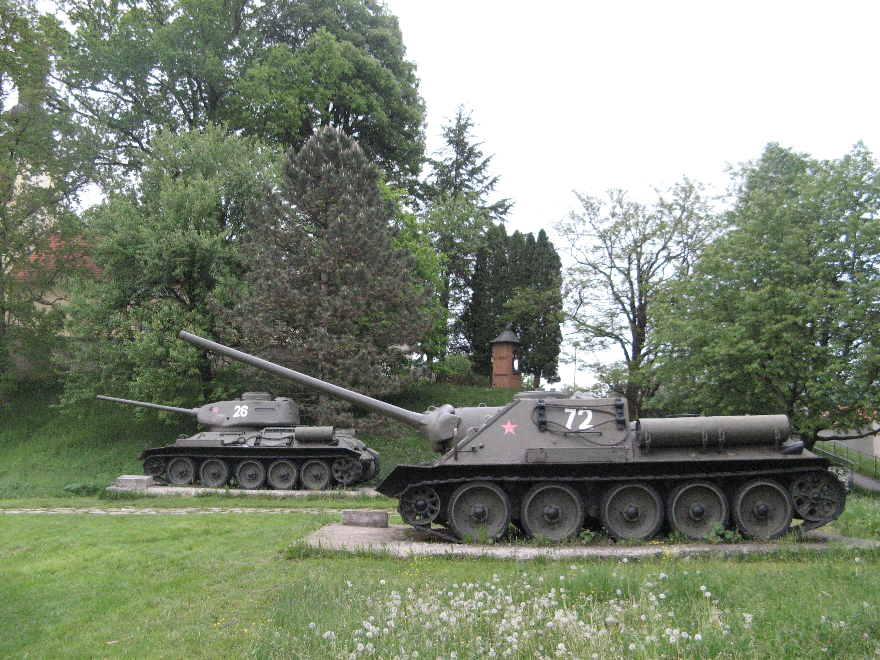 T-34 and a Soviet SD-100 assault gun at the Svidnik war museum.